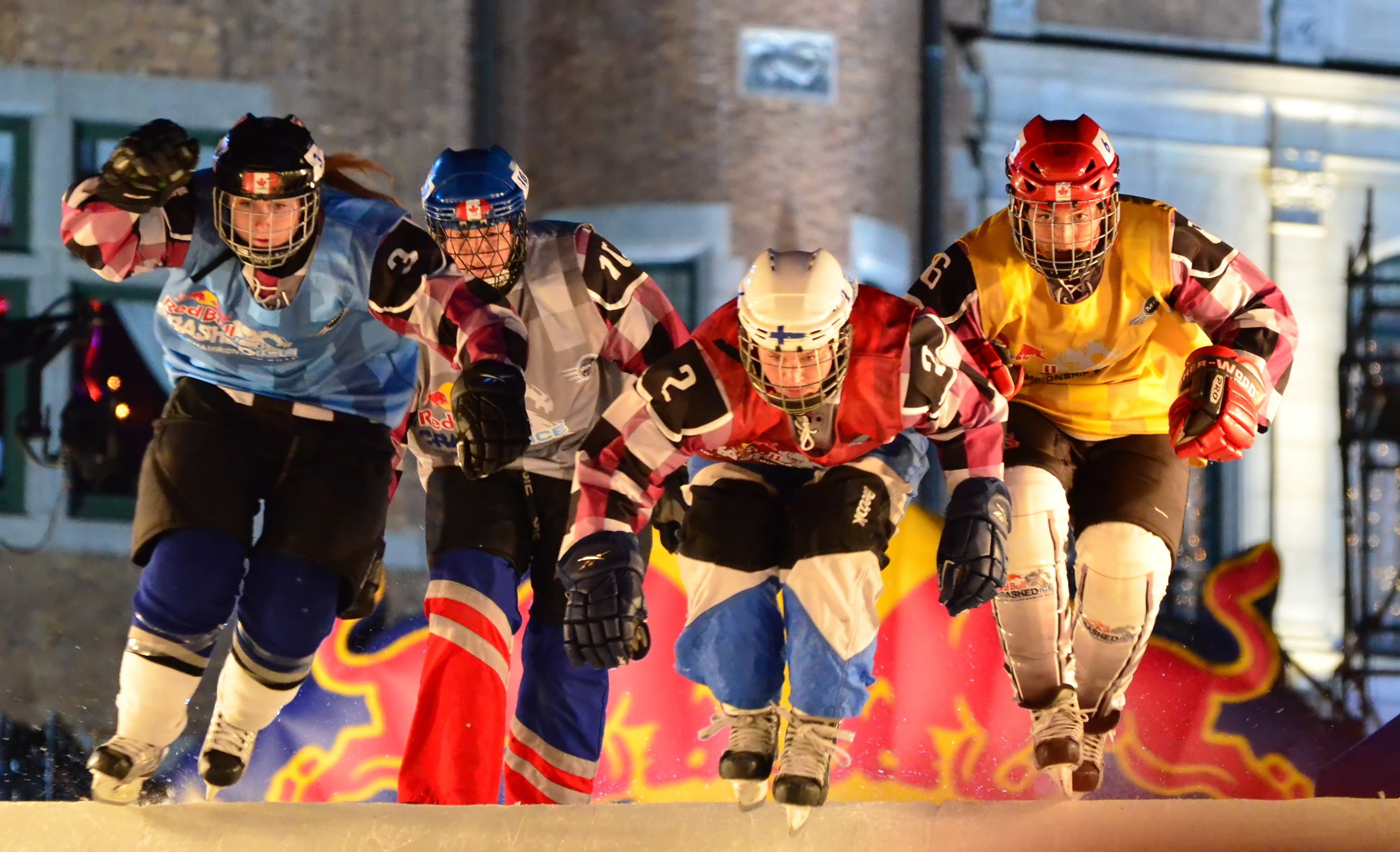 A girls run at the Quebec City Red Bull Crashed Ice 2011 in Canada.